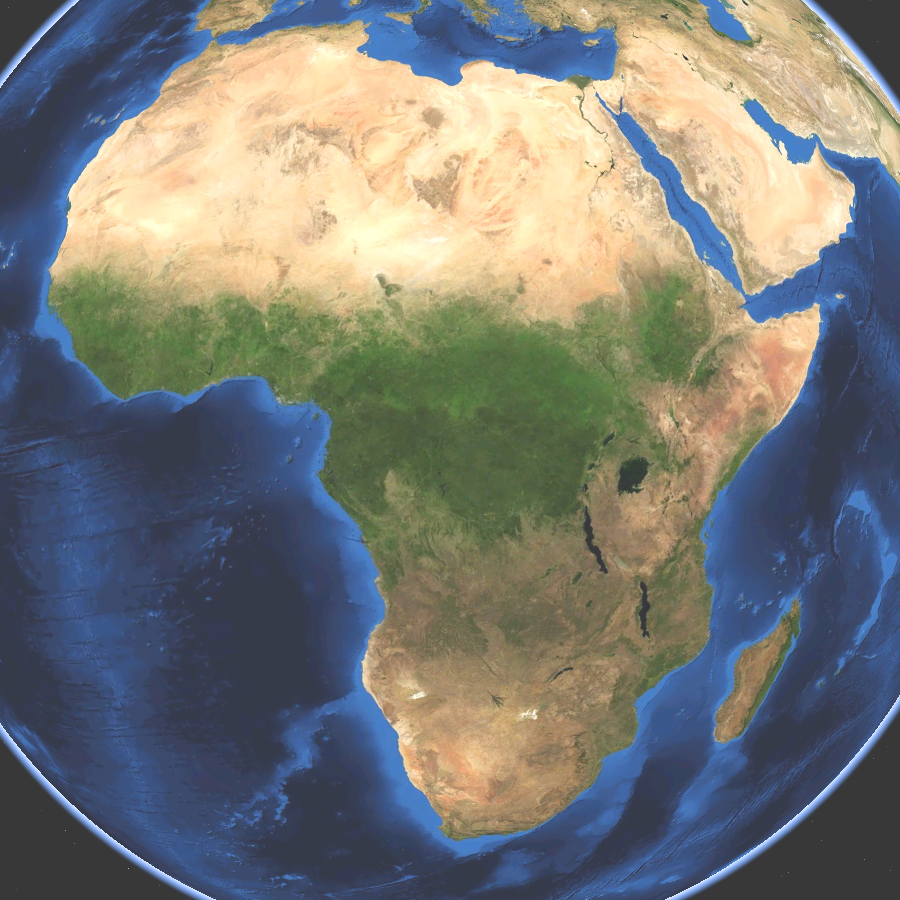 Satellite map of Africa. Land terrain and bathymetry (ocean-floor topography).